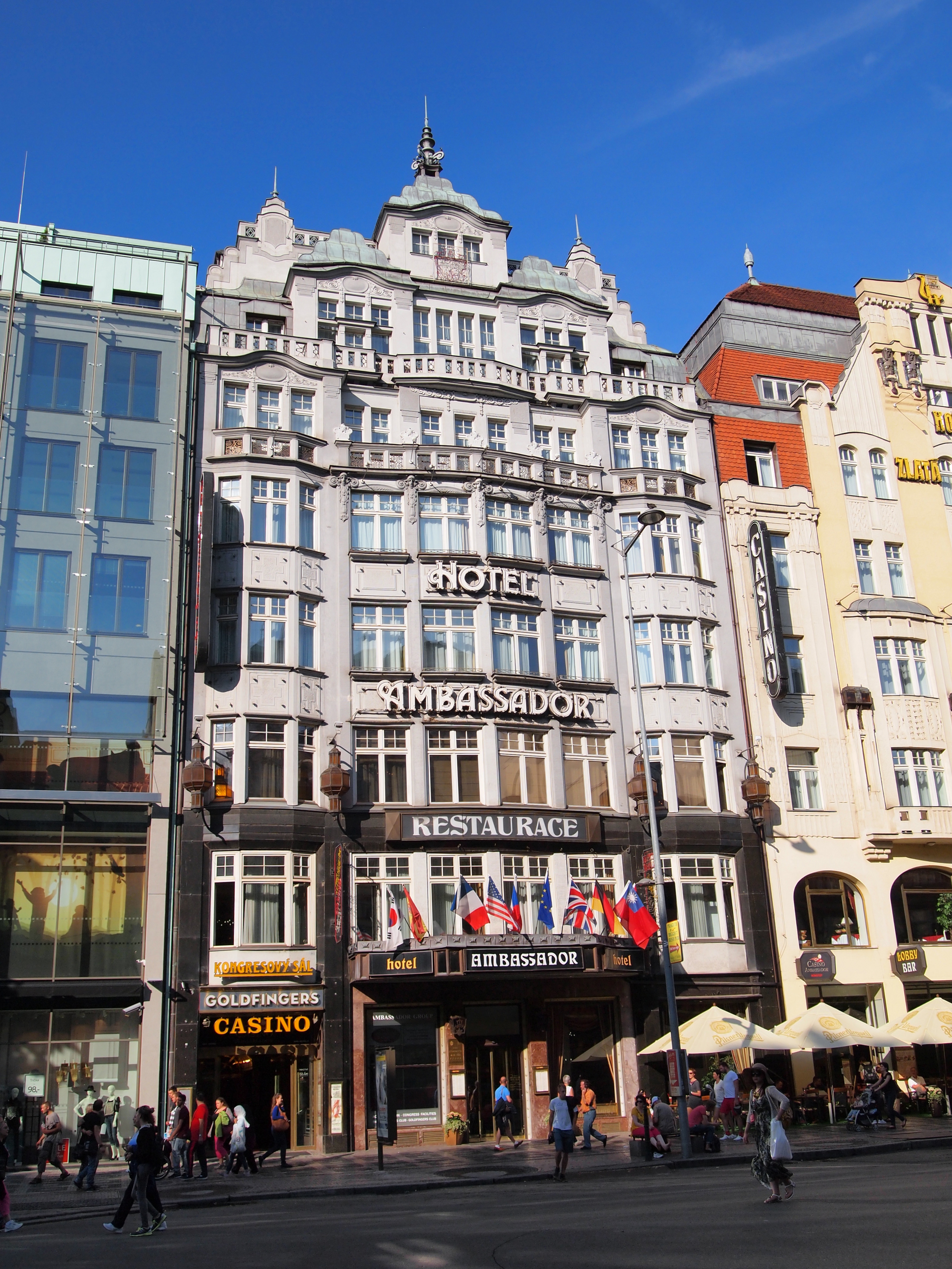 Hotel Ambassador in Prague. This photograph was taken with an Olympus E-PL1